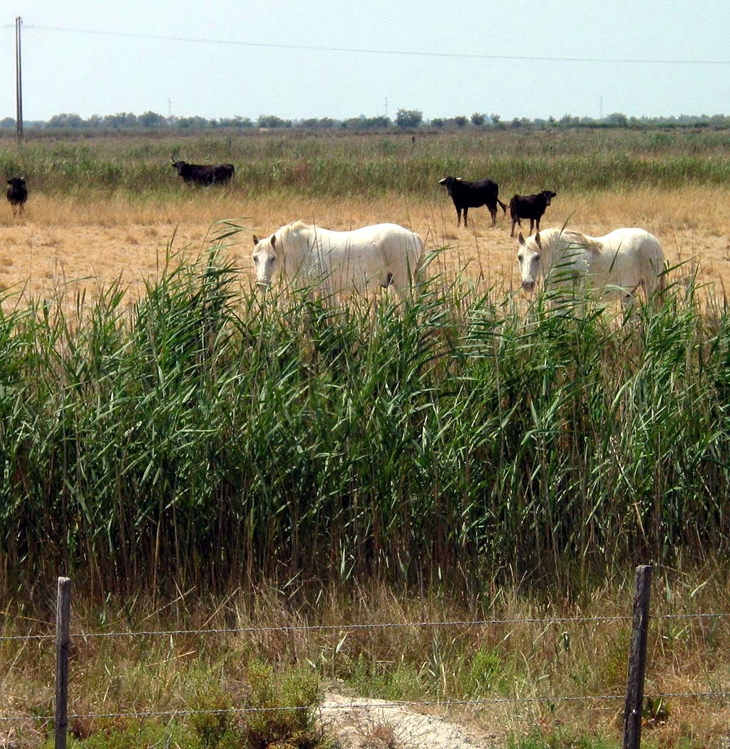 Camargue: the white horses and the black bulls together on same pasture. Barbed wire in front and high voltage power line at the rear: The typical Camargue, usually not on post cards